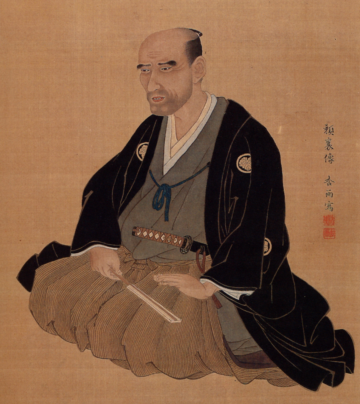 Sanyo Rai portrait, Edo period(19世紀)